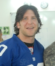 Keith Elias, retired New York Giant and Indianapolis Colt football player.